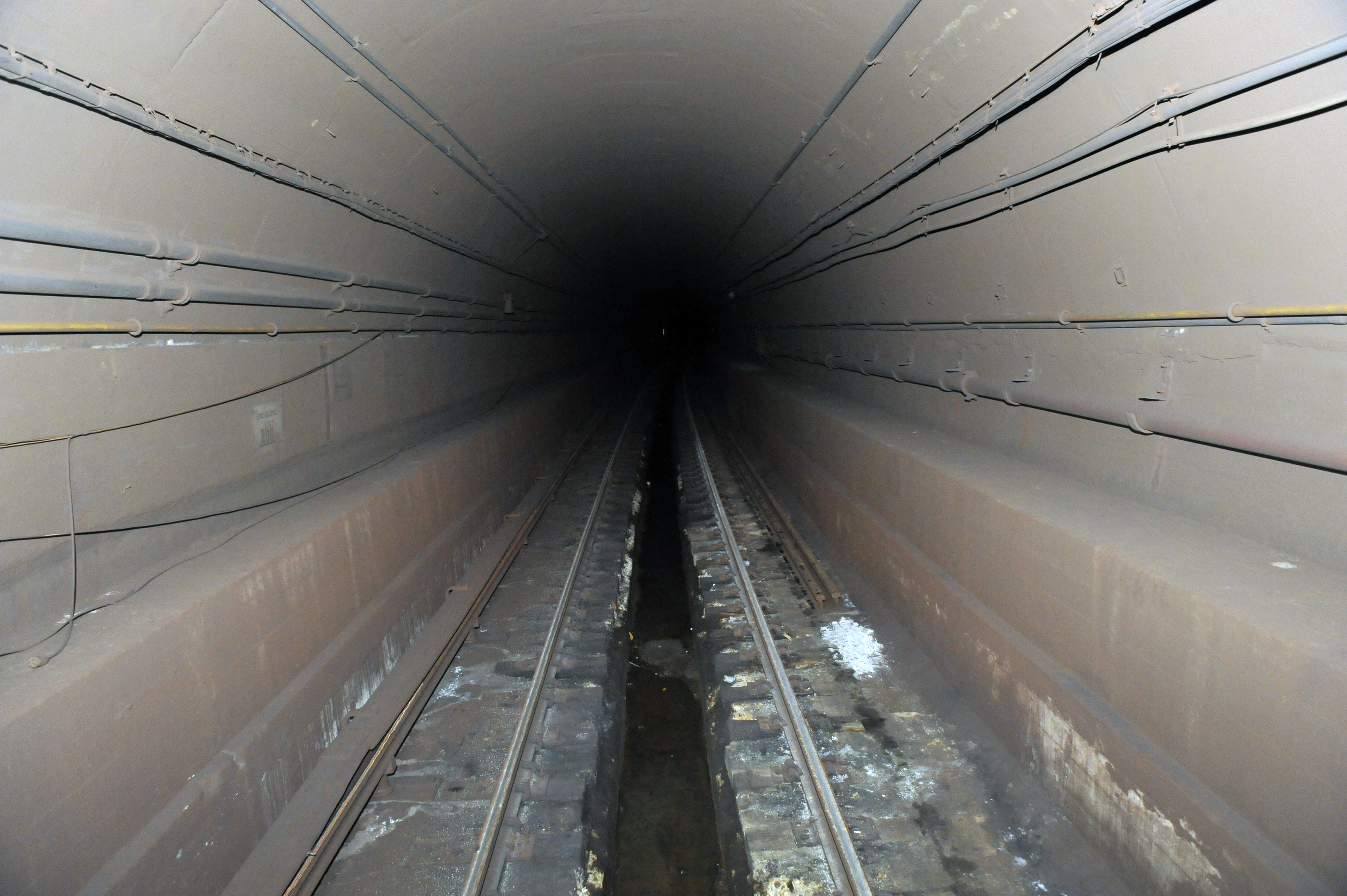 Crews have finished work to remove water from the Canarsie tubes that carry the L train beneath the East River between Brooklyn and Manhattan, and are now working to repair circuits for pump motor controllers that were damaged by seawater during Hurricane Sandy. Photo: MTA New York City Transit / Marc A. Hermann